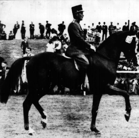 Jozsef Biro Arpad Hungarian horse riding champion